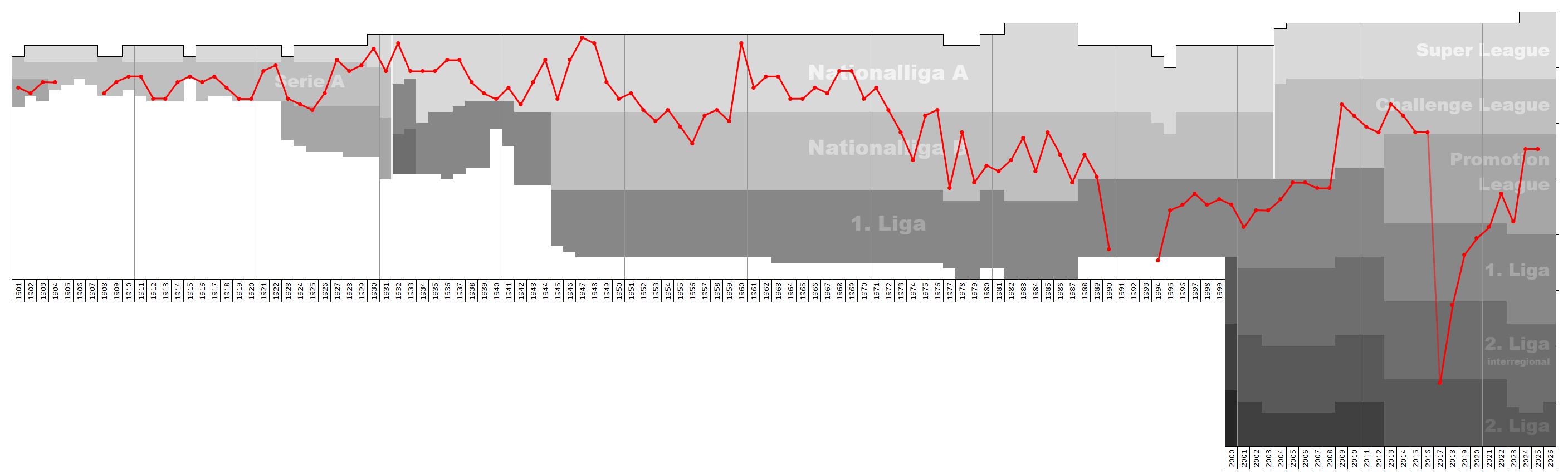 Chart of end-season table positions for FC Biel-Bienne in the Swiss football league system. Data source: RSSSF, , al-la.ch